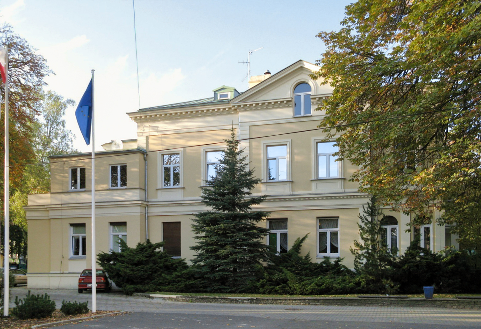 Building of Filmschool in Łódź, former Oscar Kon's Palace, Targowa Street